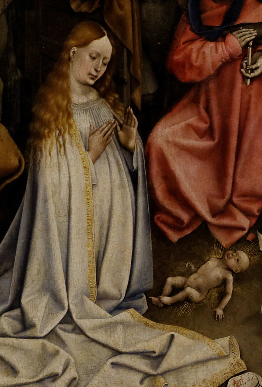 detail: Virgin and Child